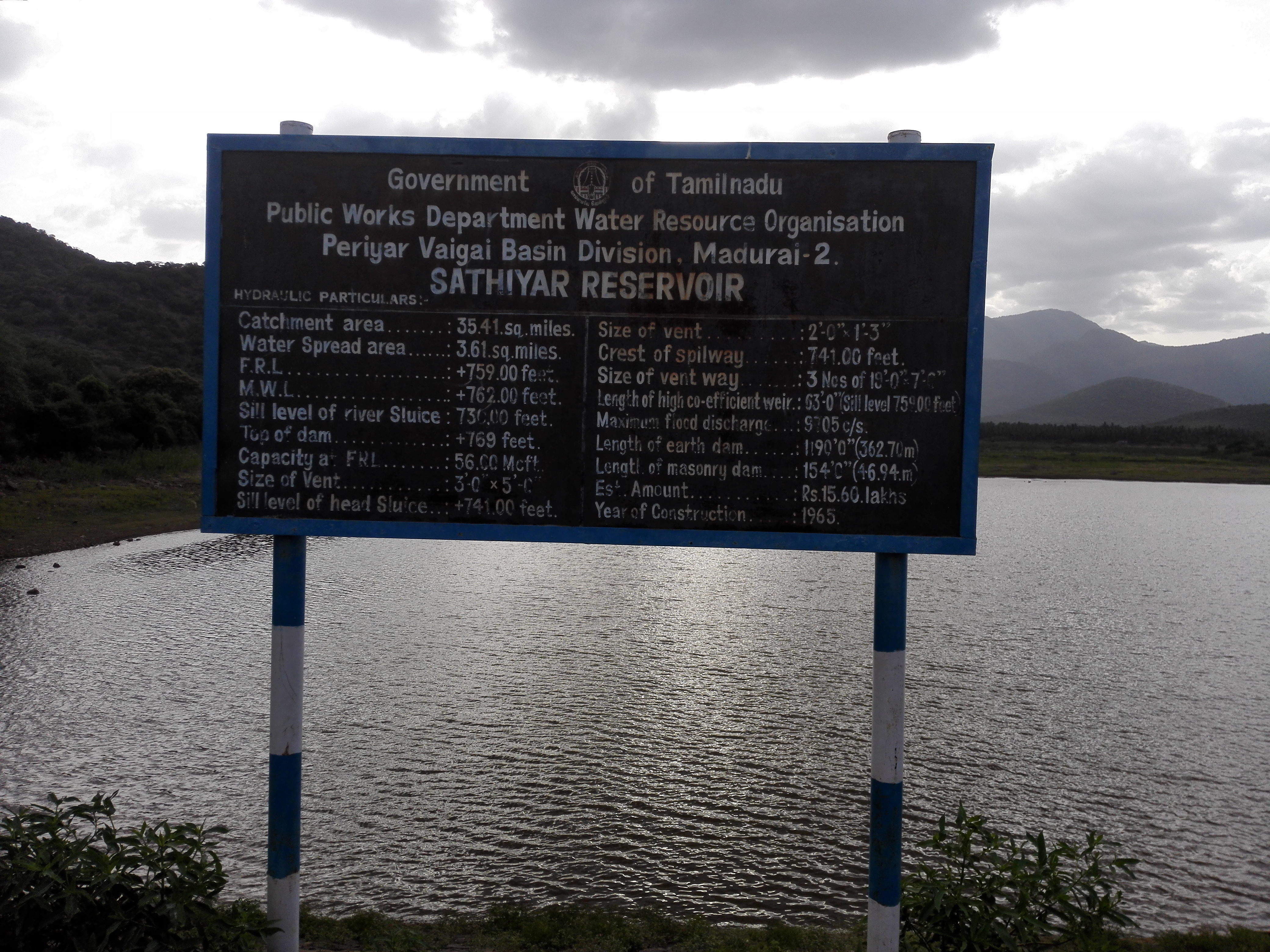 Notice Board showing hydraulic and other details of Sathiyar Reservoir, Madurai District, Tamil Nadu